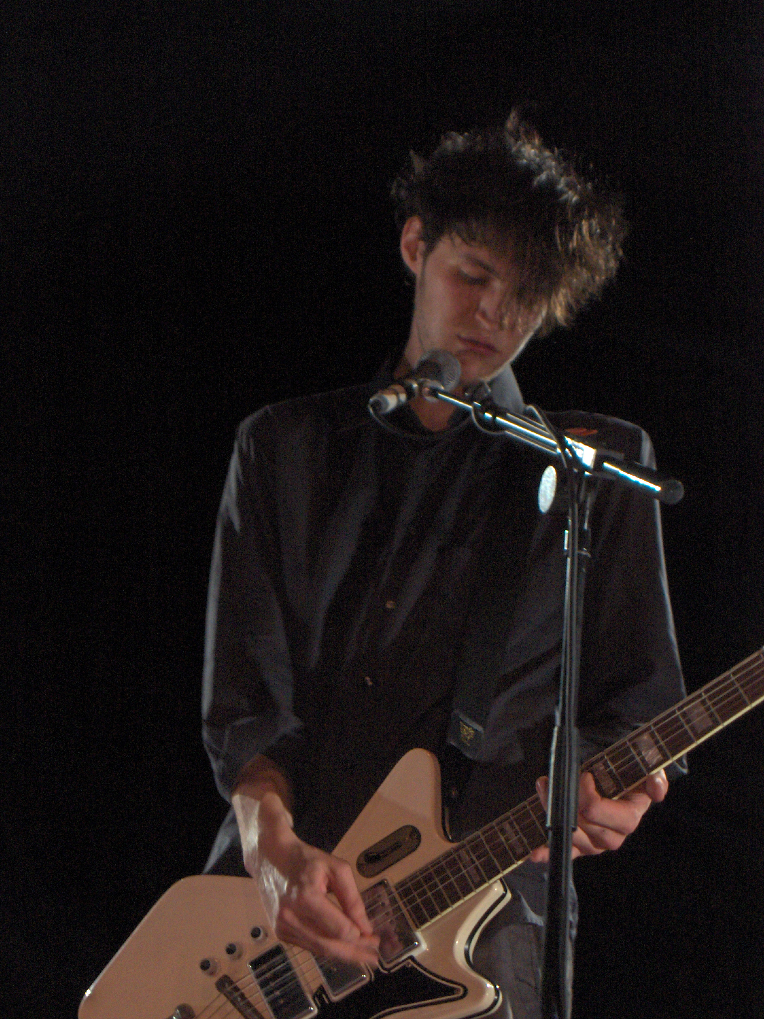 Josh Klinghoffer, photographed by Kez Cunningham at [Wikipedia user JKDN]. Photograph taken on September 14, 2004, at a PJ Harvey concert in Brighton, UK.